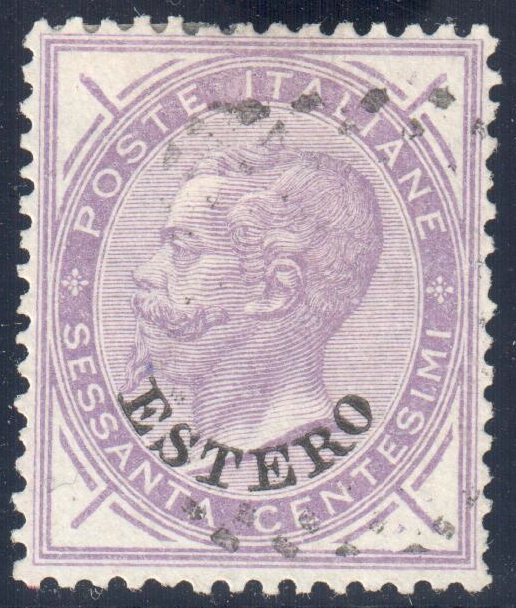 Italy, offices abroad. King Victor Emmanuel II issue overprinted 'ESTERO' in black, 60 centesimi lilac, used. White wove paper with 'Imperial Crown' watermark. Perforated 14.0 x 14.0. Typography printing by the Italian state printing offices in Turin. Signed 'Lange'. Catalogue: Sass. 8, Sc. 10